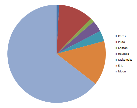 Relative masses of dwarf planets and Charon compared to the Moon.